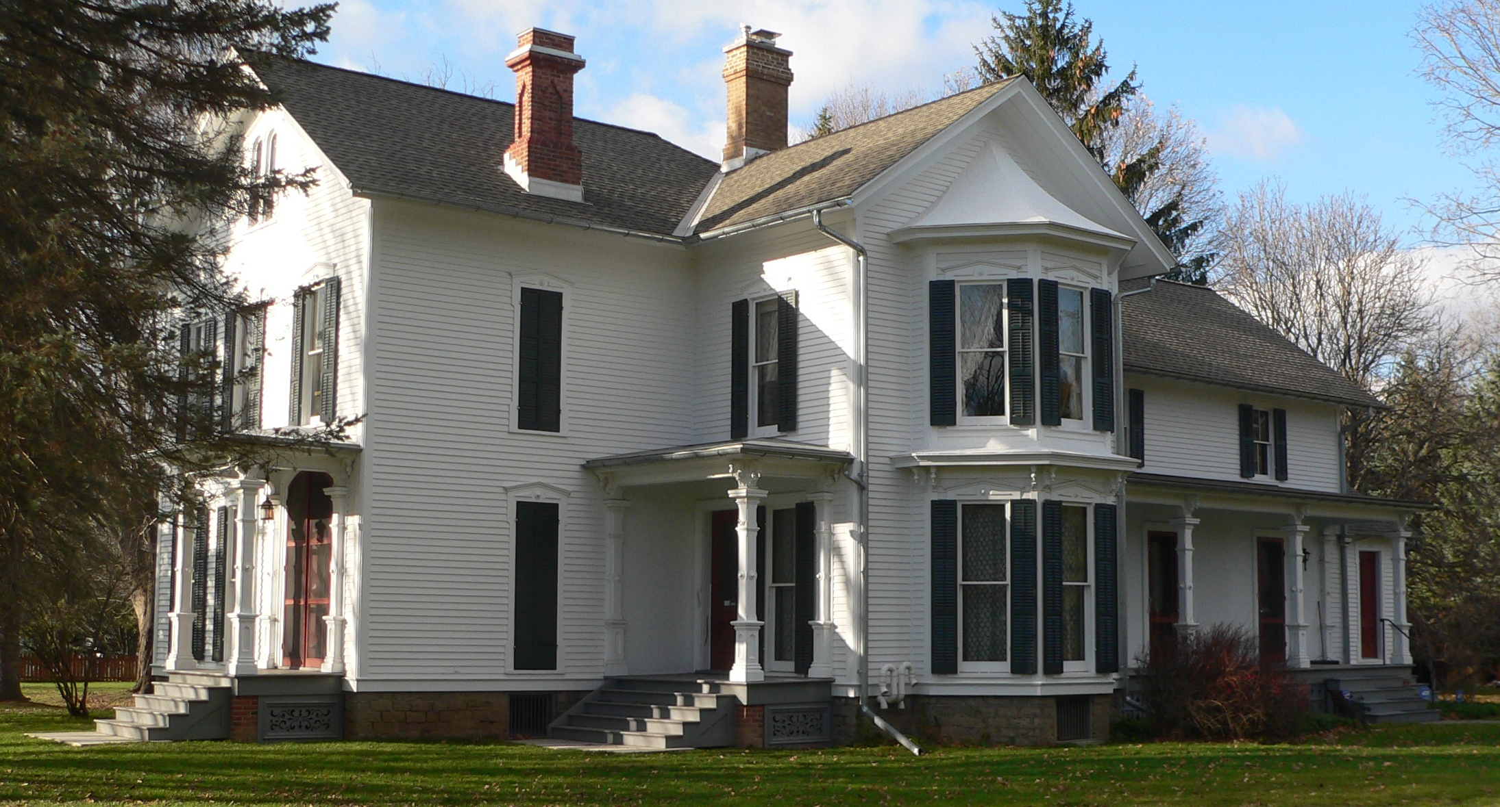 Franklin Hinchey house, located at 634 Hinchey Road in Gates, New York; seen from the southeast.